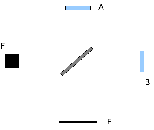 Michelson–Morley experiment